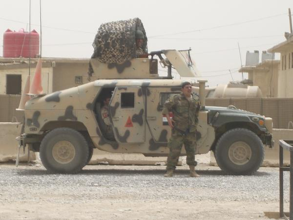 A HUMMV in the Iraqi Army